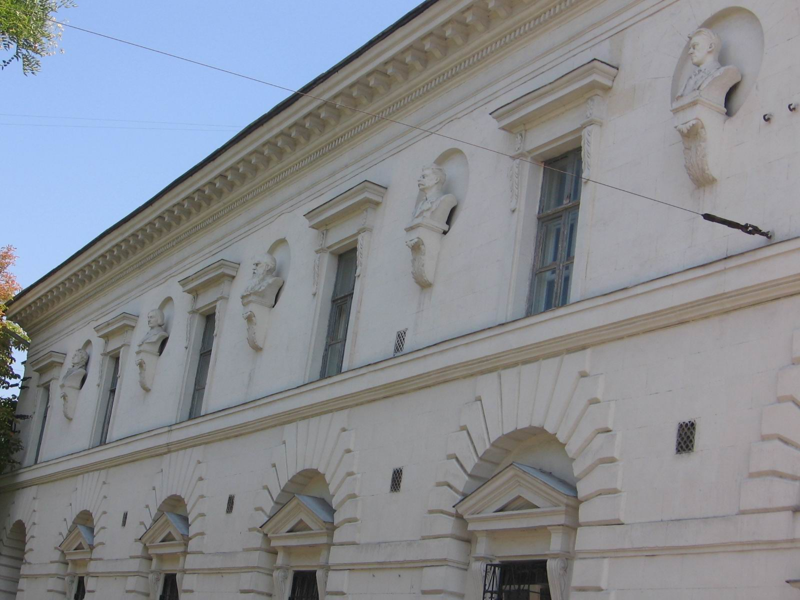 Tolstoy Sevastopol Central City Library. Built in 1952 on the project by architect M. Ushakova. Busts from left to right: Alexander Pushkin, Nikolai Gogol, Leo Tolstoy, Maxim Gorky, Vladimir Mayakovsky.